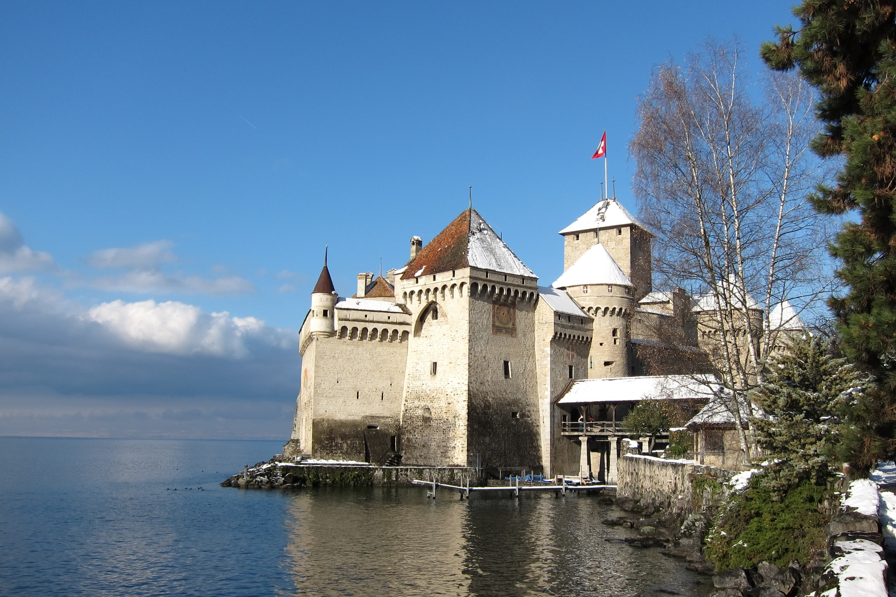 Leman Lake - Chillon Castle